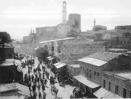 Reproduction of an old picture by me